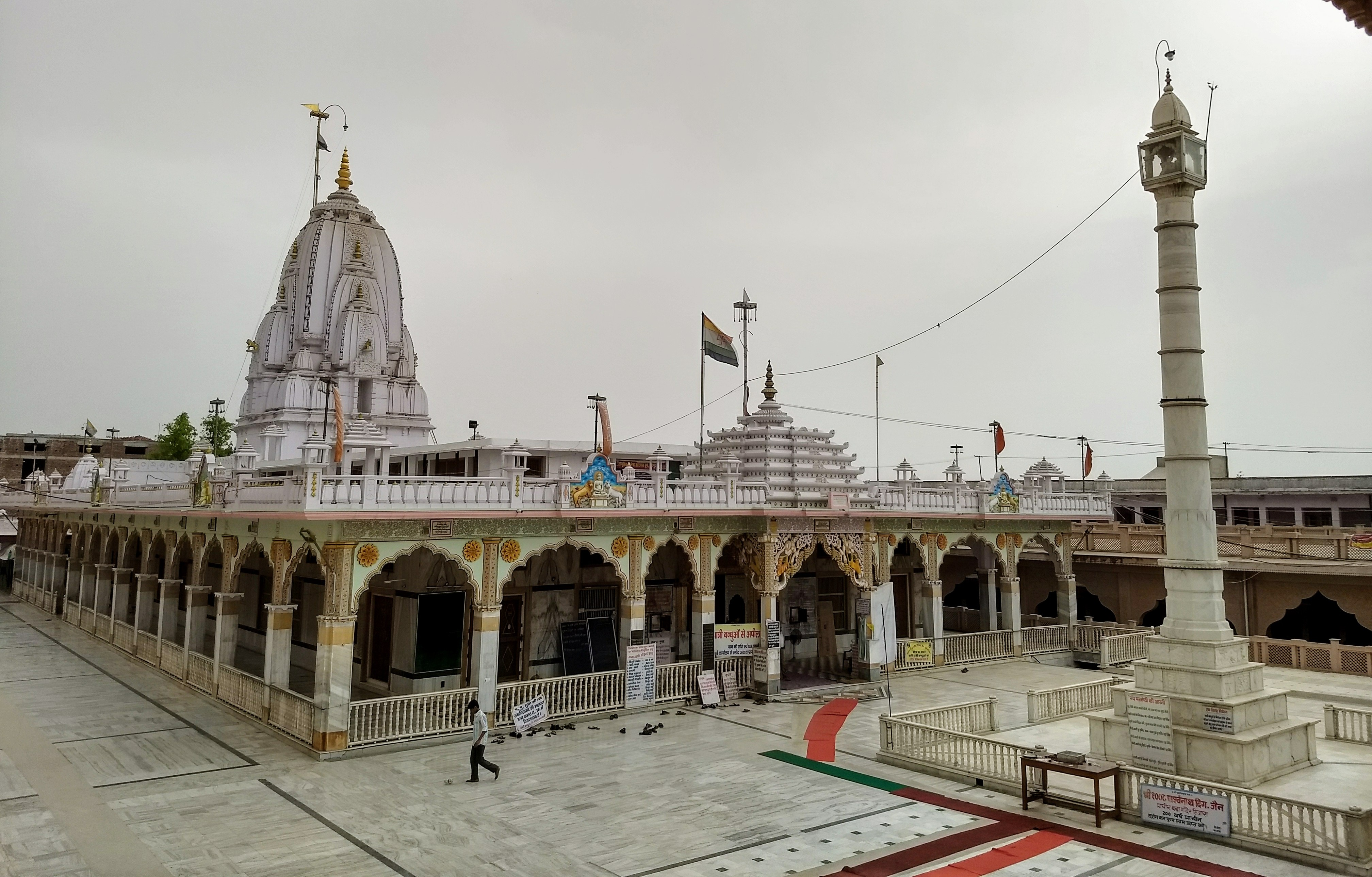 Main Jain temple in Tijara, dedicated to chandraprabha